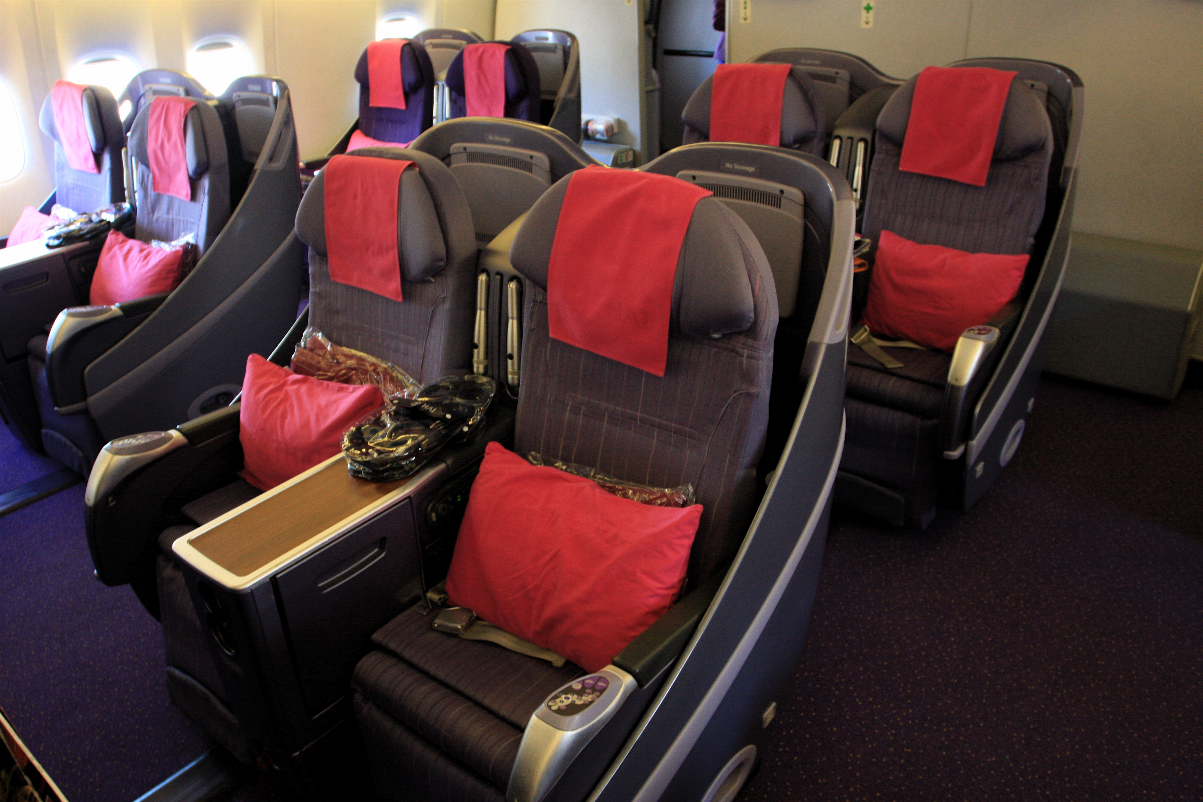 Thai Airways Business Class Seats on Boeing 777-200ER.